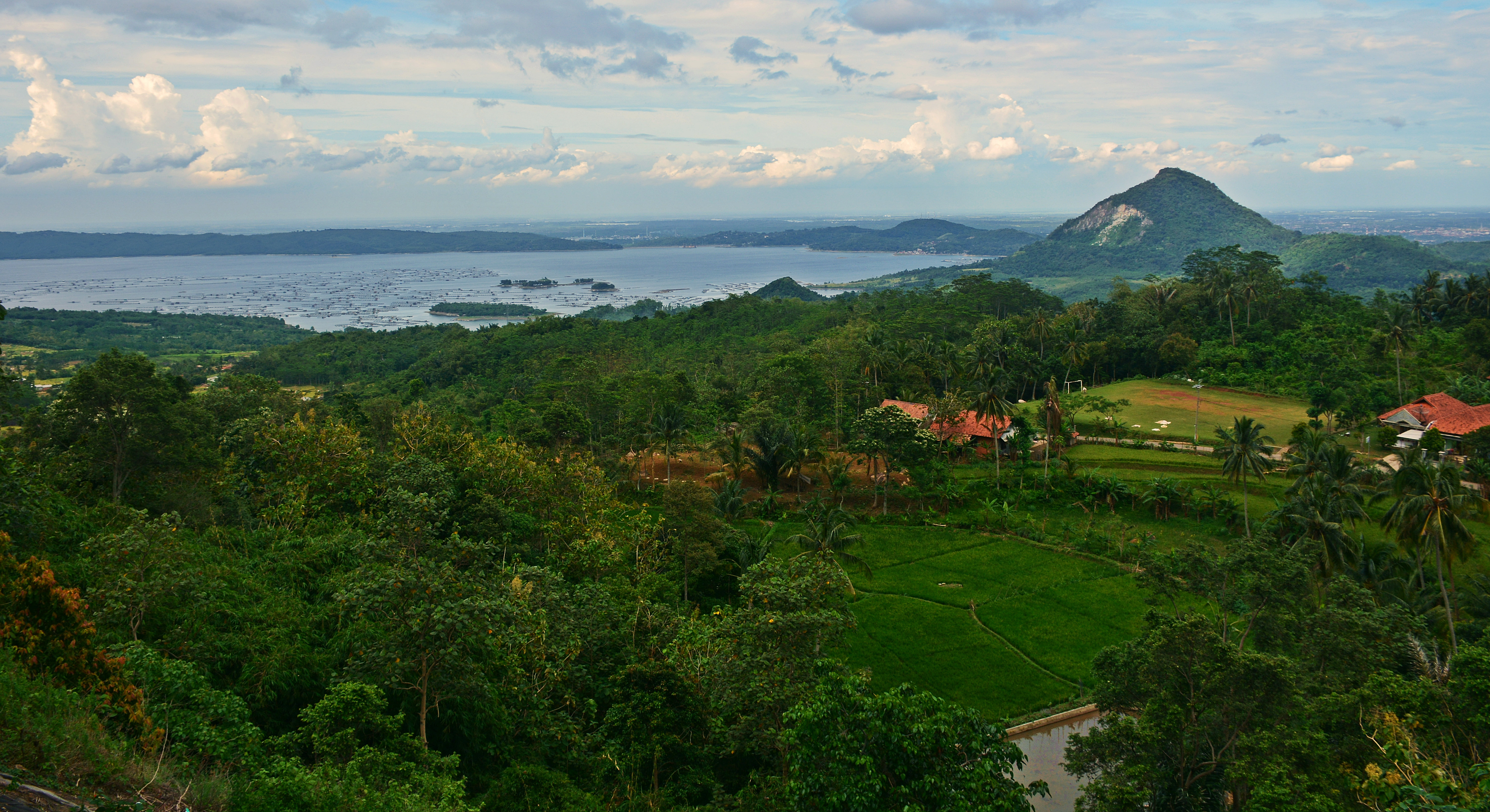 The view of Purwakarta and its famous Jatiluhur reservoir viewed from Mount Parang, West Java